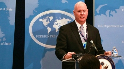 The 2016 GOP Platform